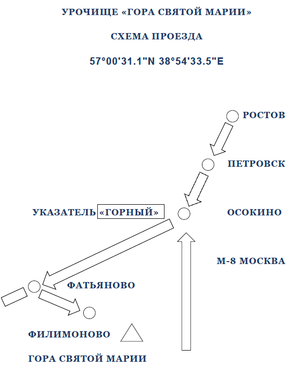 How to get